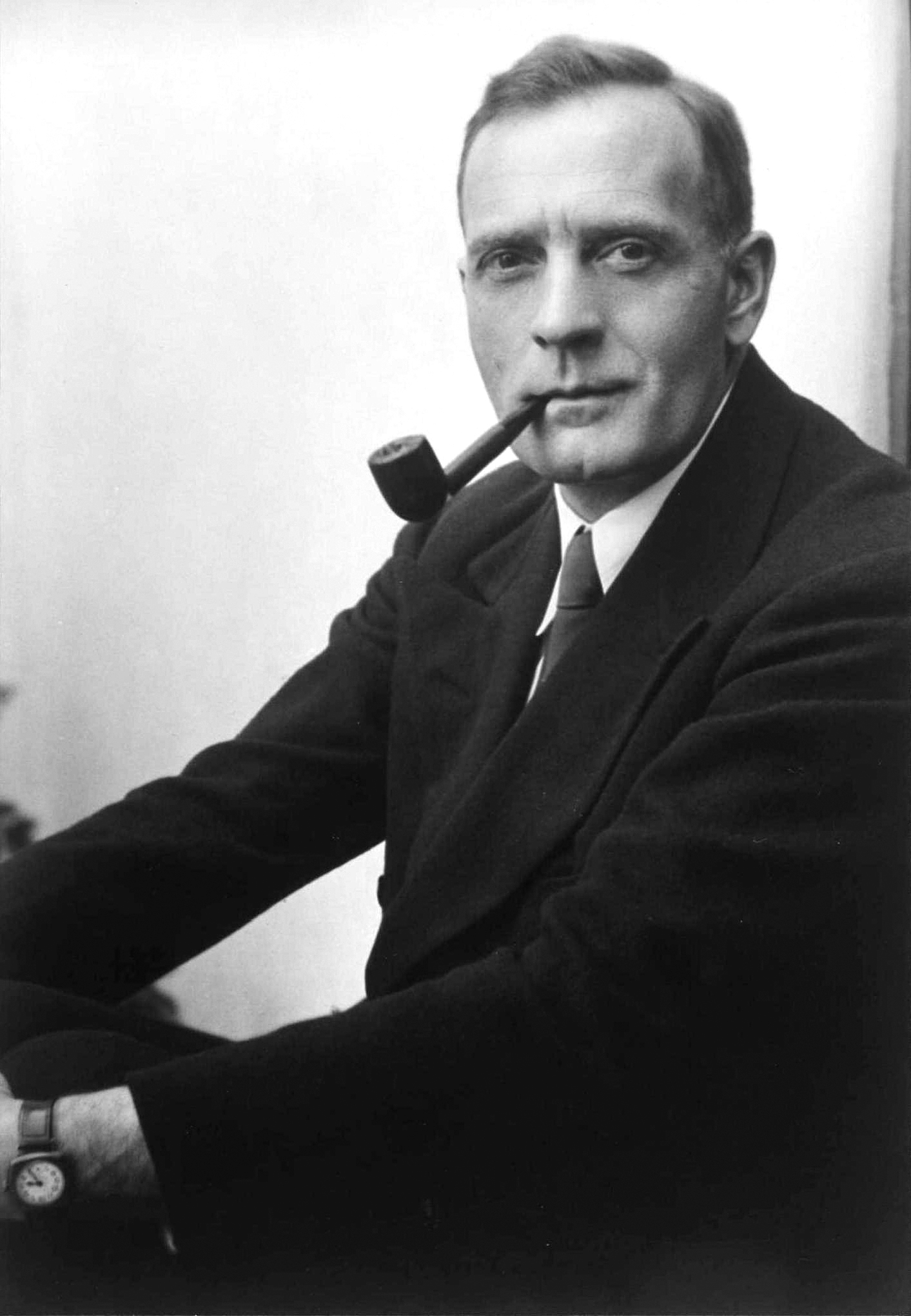 Studio Portrait of Edwin Powell Hubble. Photographer: Johan Hagemeyer, Camera Portraits Carmel. Photograph signed by photographer, dated 1931.